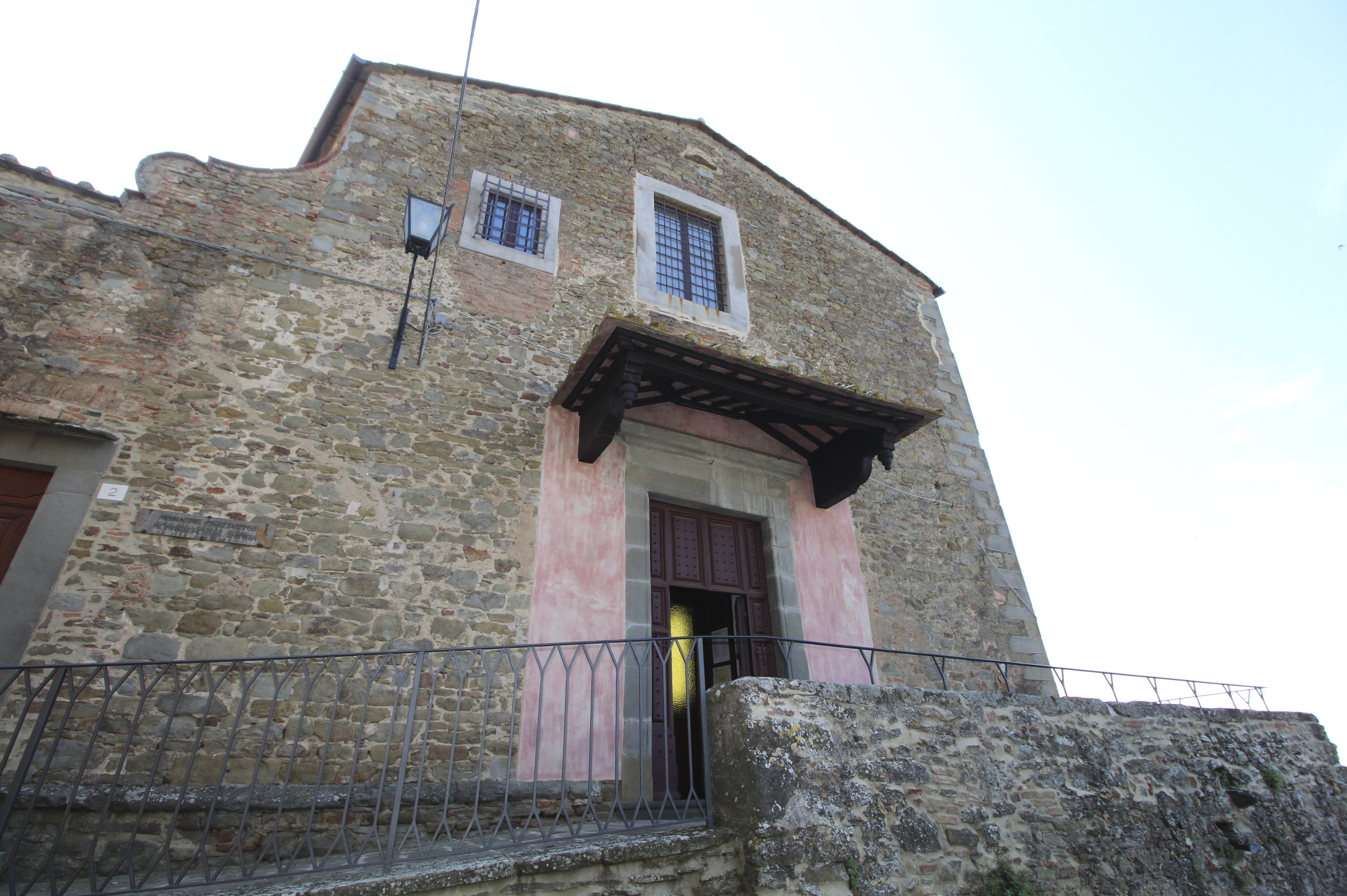 Church Santissima Trinità, historical center of Cortona, Province of Arezzo, Tuscany, Italy